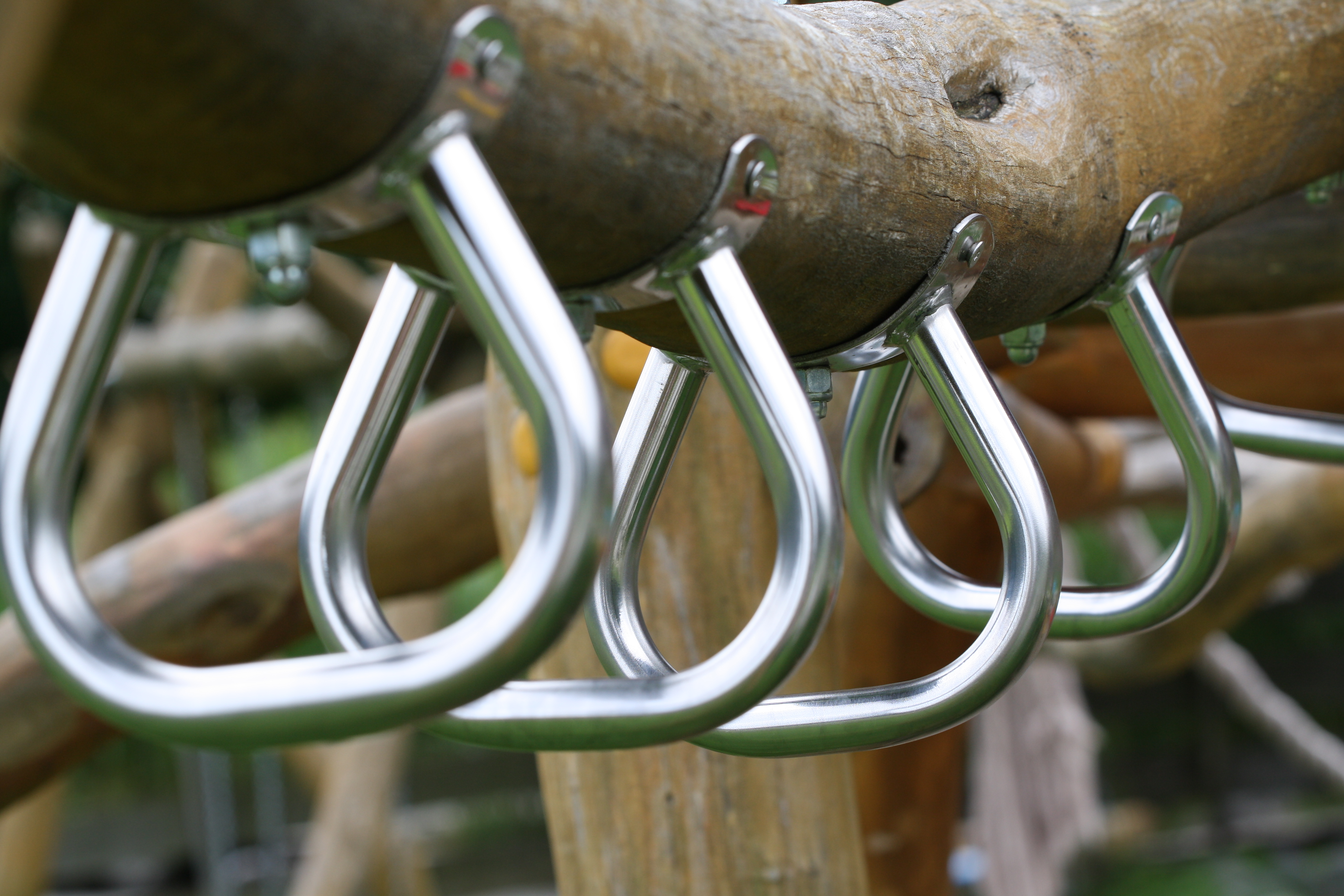 Jungle gym in Achenkirch / Austria.